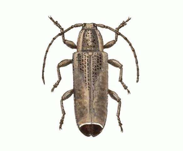 Biologia Centrali-Americana - Adetus muticus Cut-out from original (BCA - Coleoptera Vol 5 Tab 8.JPG) shown below